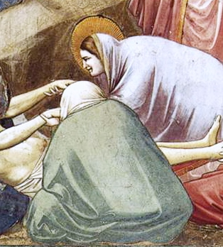 Close up of Giotto's Lamentation panel from the Arena Chapel.